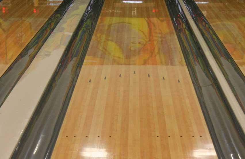 bowling